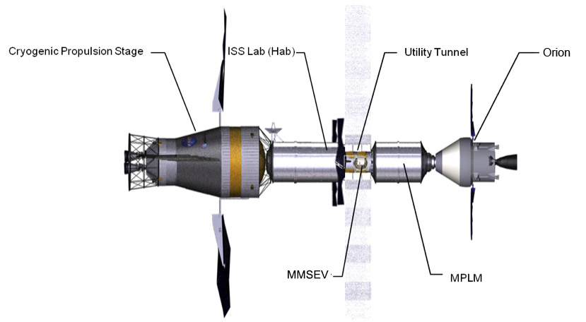 Concept for the design of the ISS-Derived Deep Space Habitat with Cryogenic Propulson Stage in 500 day HAB/MPLM configuration